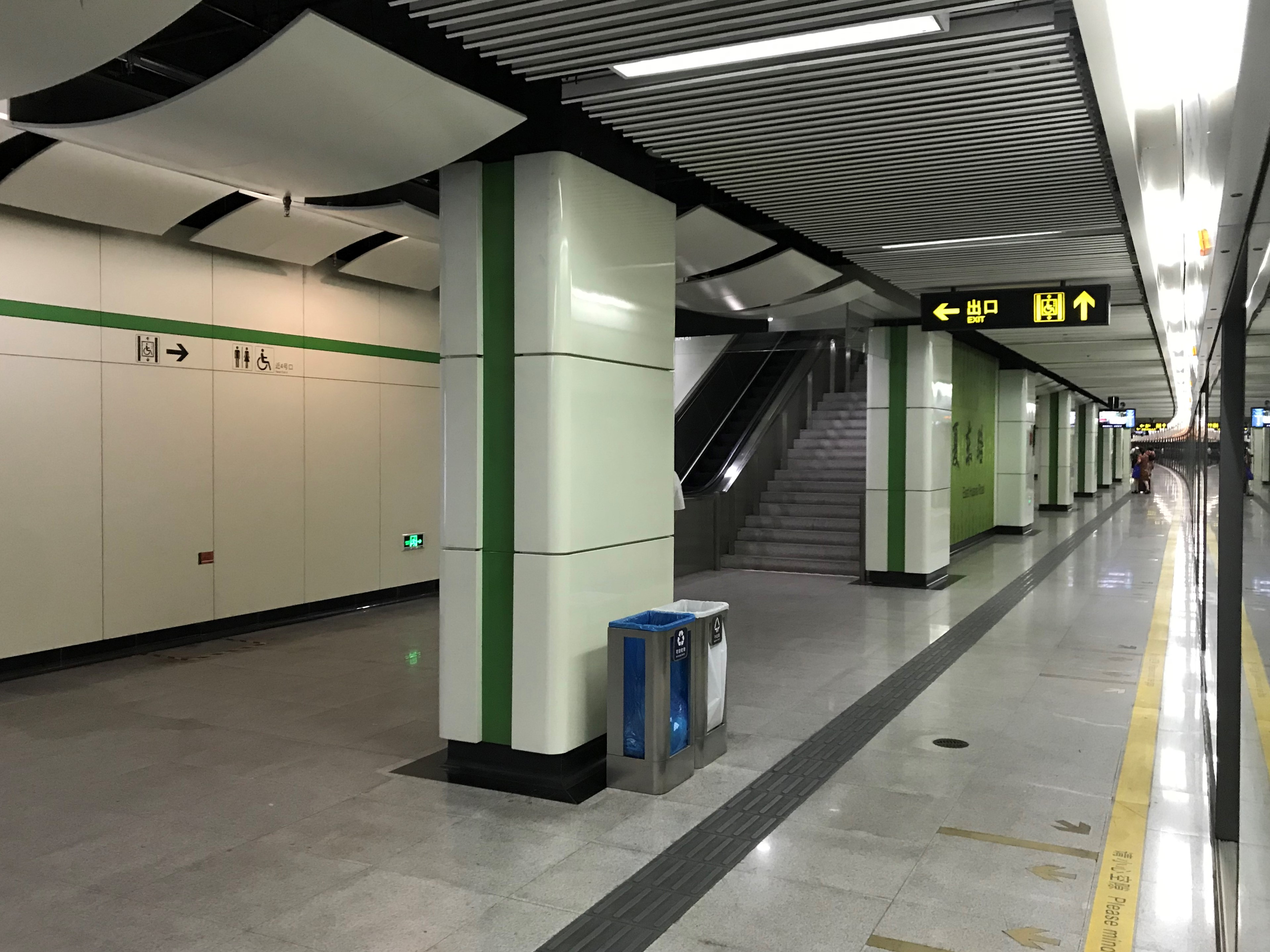 Surprisingly it is a curve platform.